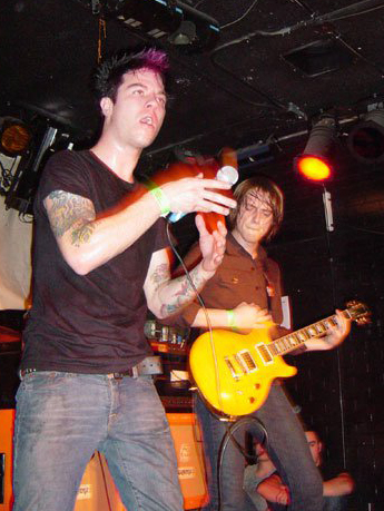 A Static Lullaby @The Troubadour